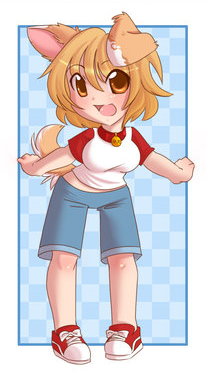 a Kemonomimi dog girl